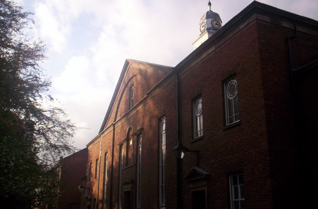 Fairfield Moravian Church, Fairfield Square, Droylsden, Greater Manchester (formerly Lancashire)